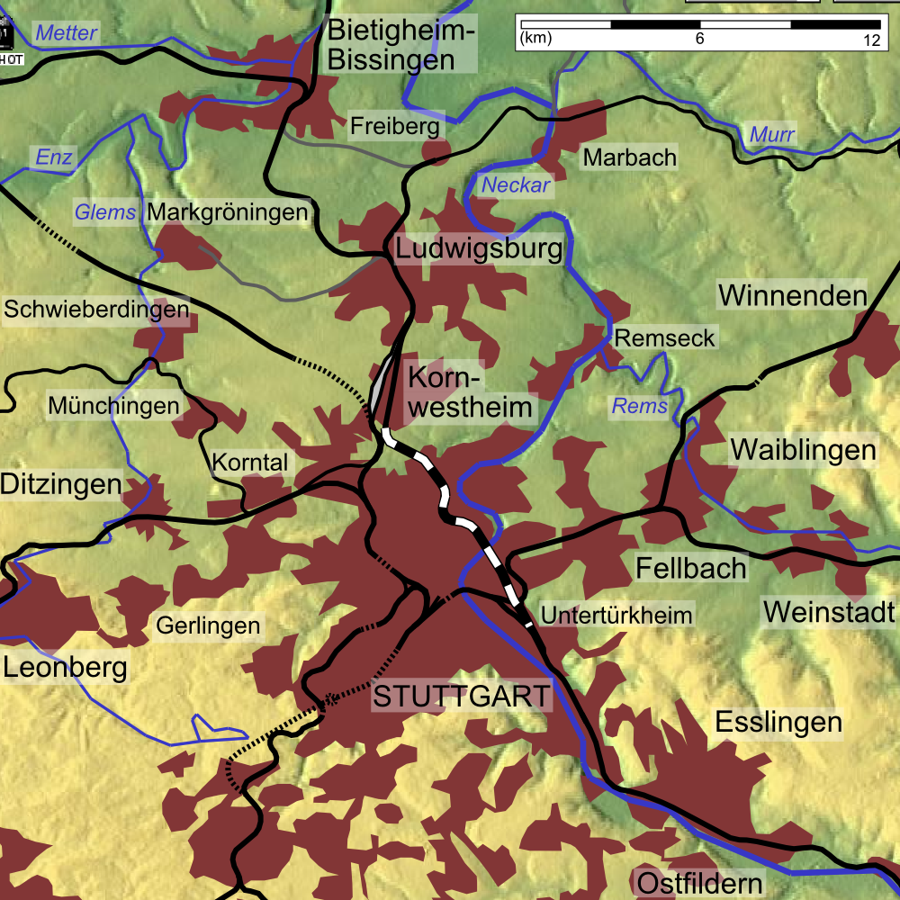 map of the Schusterbahn. please see User:Kjunix/BahnNWB for comments.